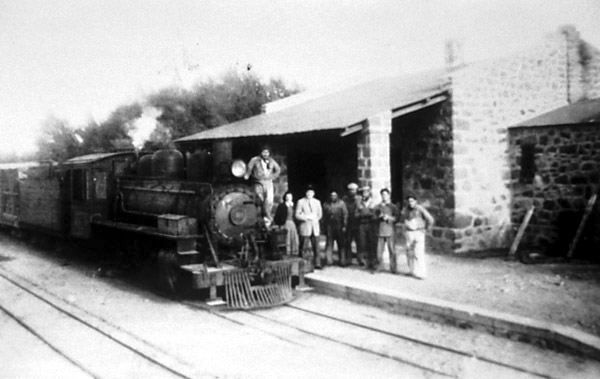 Boca de la Zanja station, part of Central Chubut Railway.